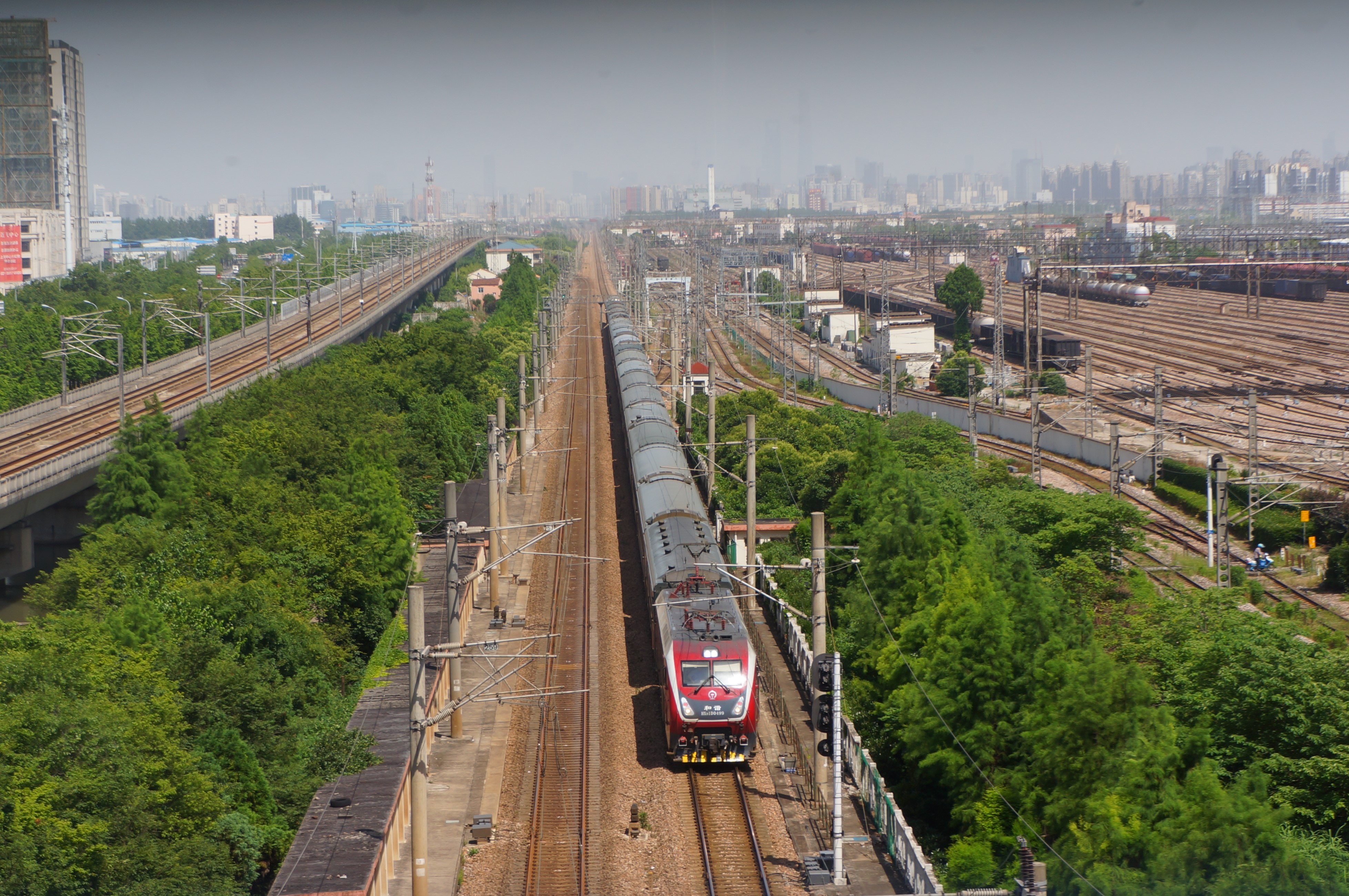 201805 HXD1D-0499 hauls K1102 to Anyang at Nanxiang